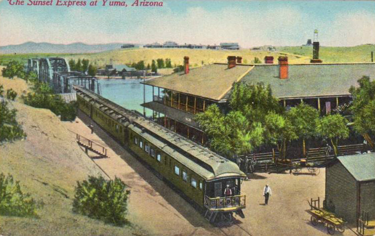 Postcard depiction of the Southern Pacific train "Sunset Express" at Yuma, Arizona.